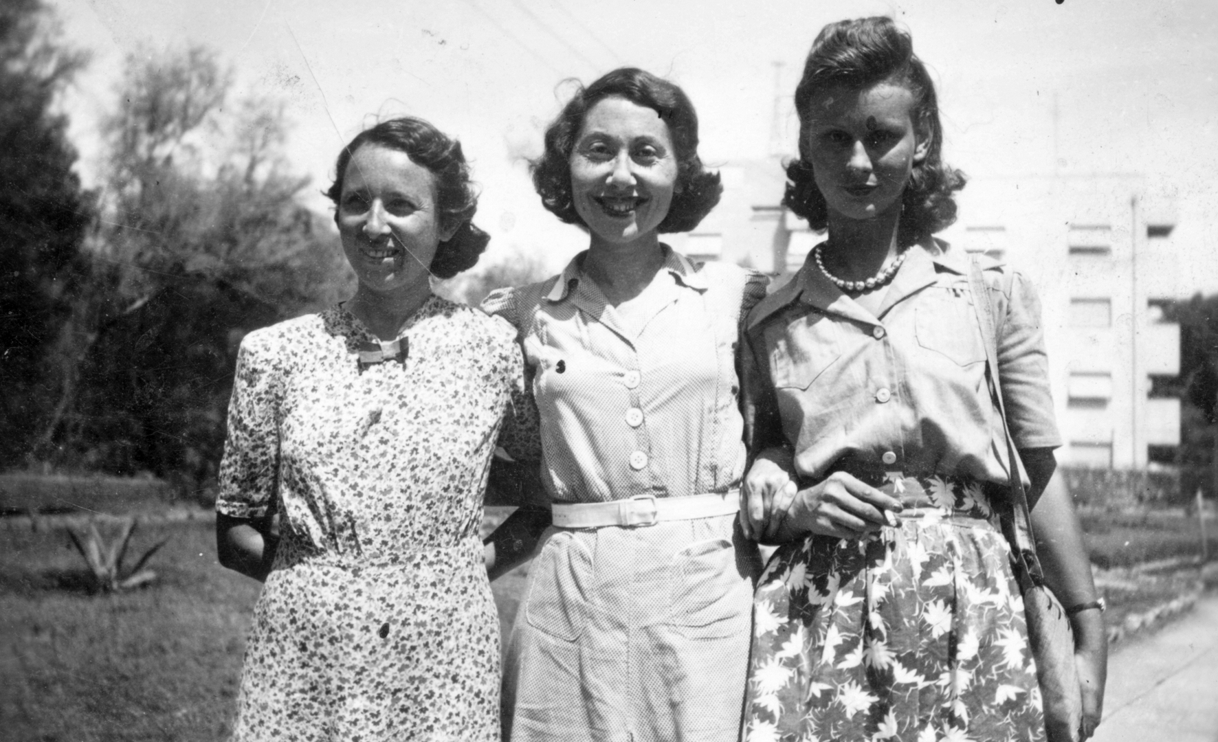 055 1942 - Dance band girls at the Australian Soldier's Club, Tel-Aviv, Palestine